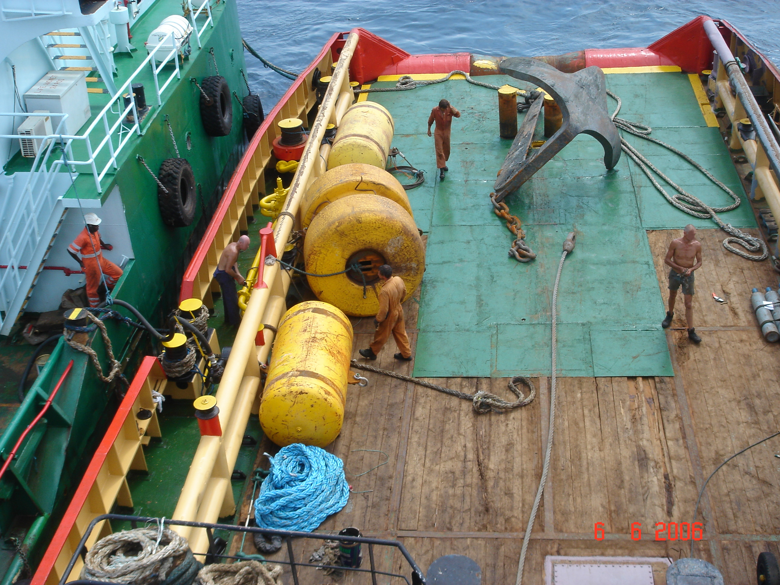 Deck of AHT tug during anchor handling. Visible Bruce anchor, anchor buoy and buoys